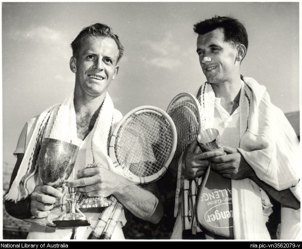 A digital image of the portrait of Rex Hartwig and Mervyn Rose is available from the National Library of Australia (NLA) website. The NLA image contains spurious indexing information along the bottom.